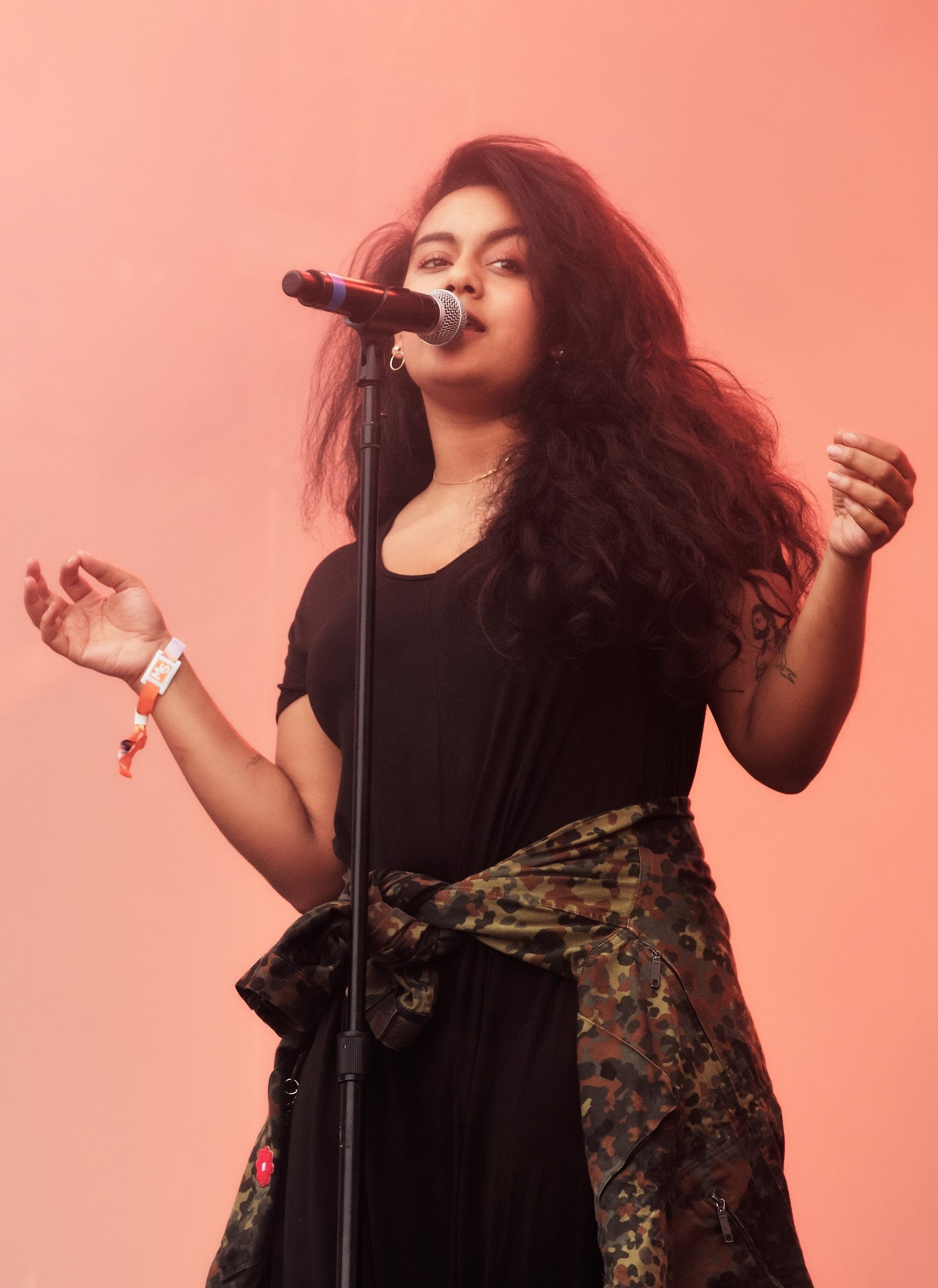 Bibi Bourelly performing at Bumbershoot in Seattle, Washington on September 3, 2017.